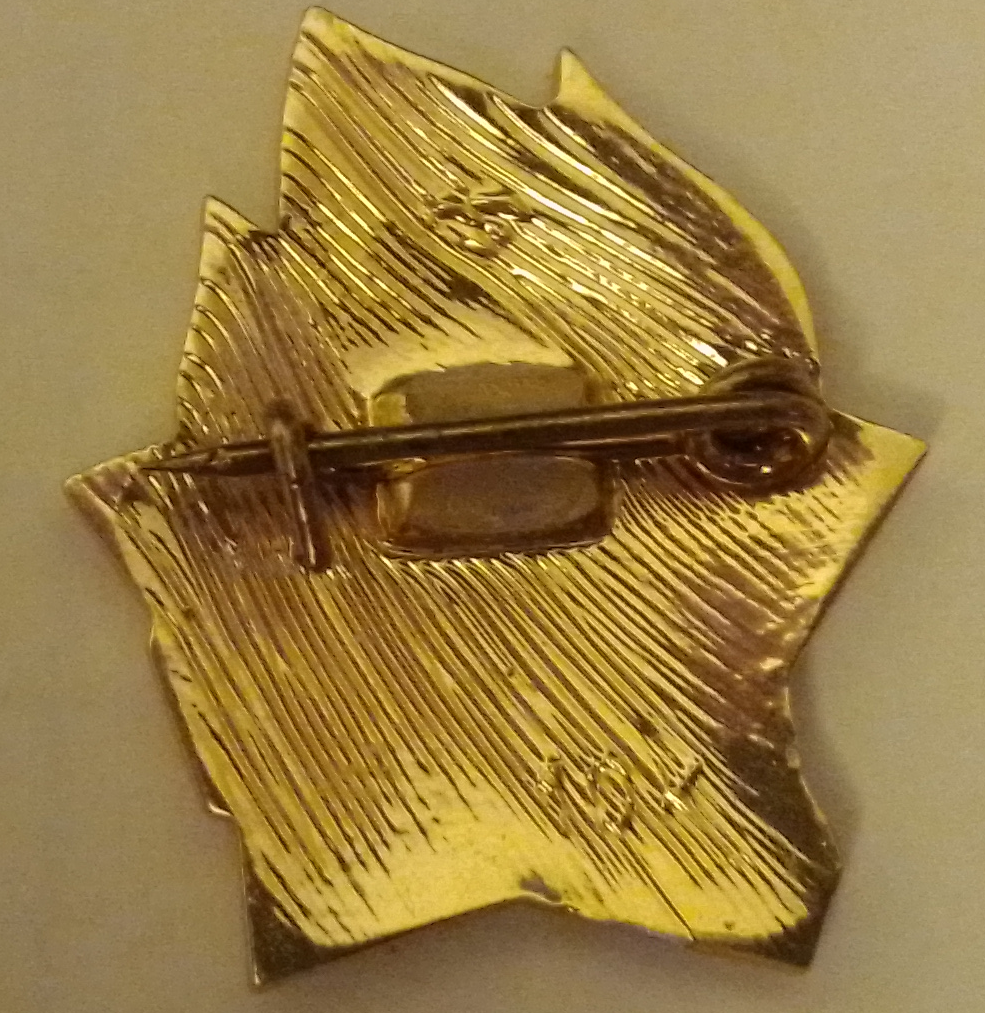 Badge of Young Pioneer organization of the Soviet Union - reverse side